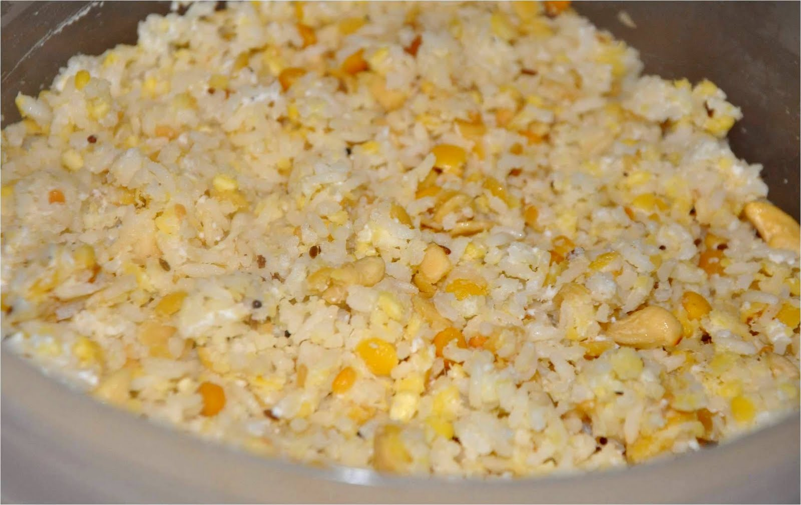 SWEET